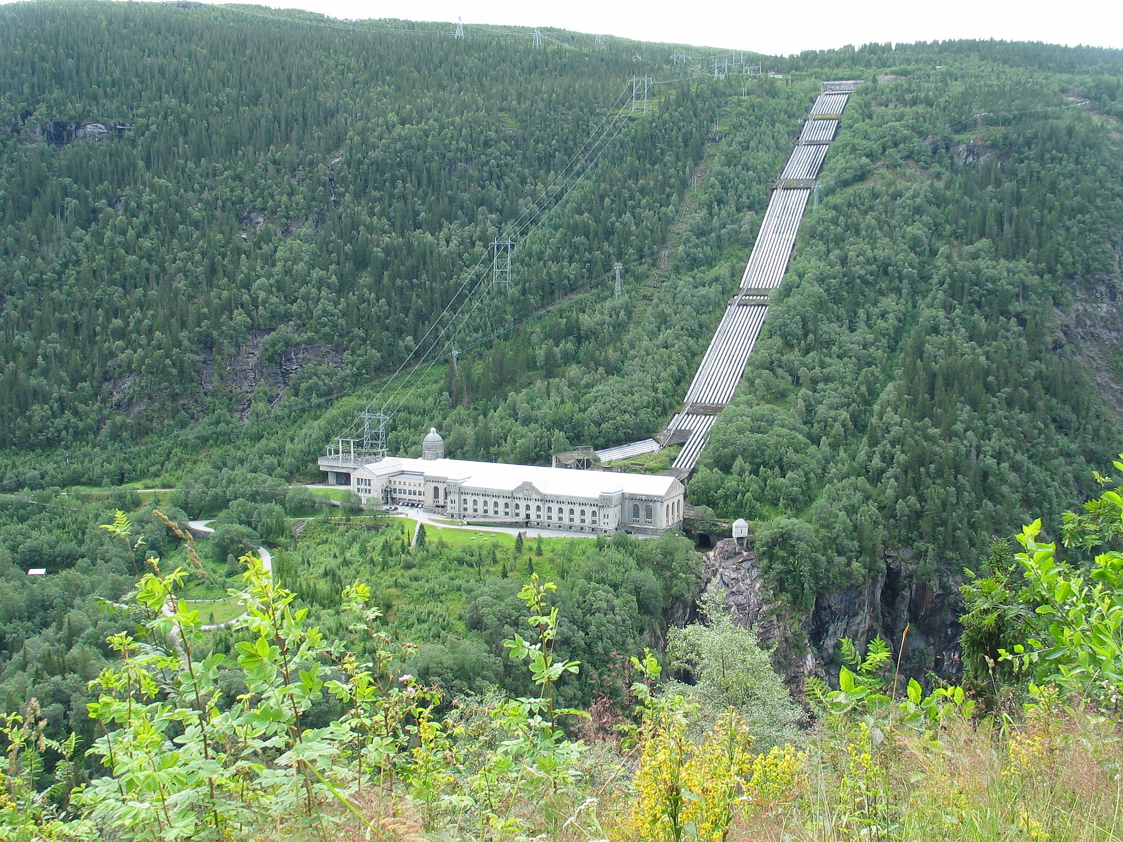 Picture of Vemork, Rjukan